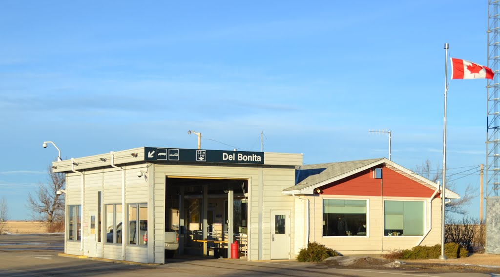 The Border crossing station entering Canada